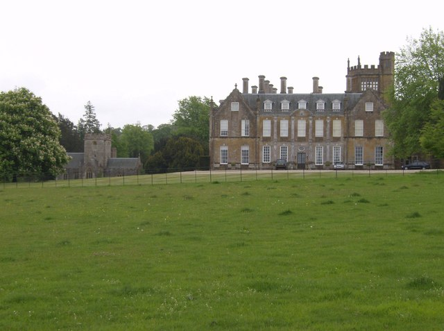 Melbury House (right) and parish church of St Mary (left), Melbury Sampford, Dorset